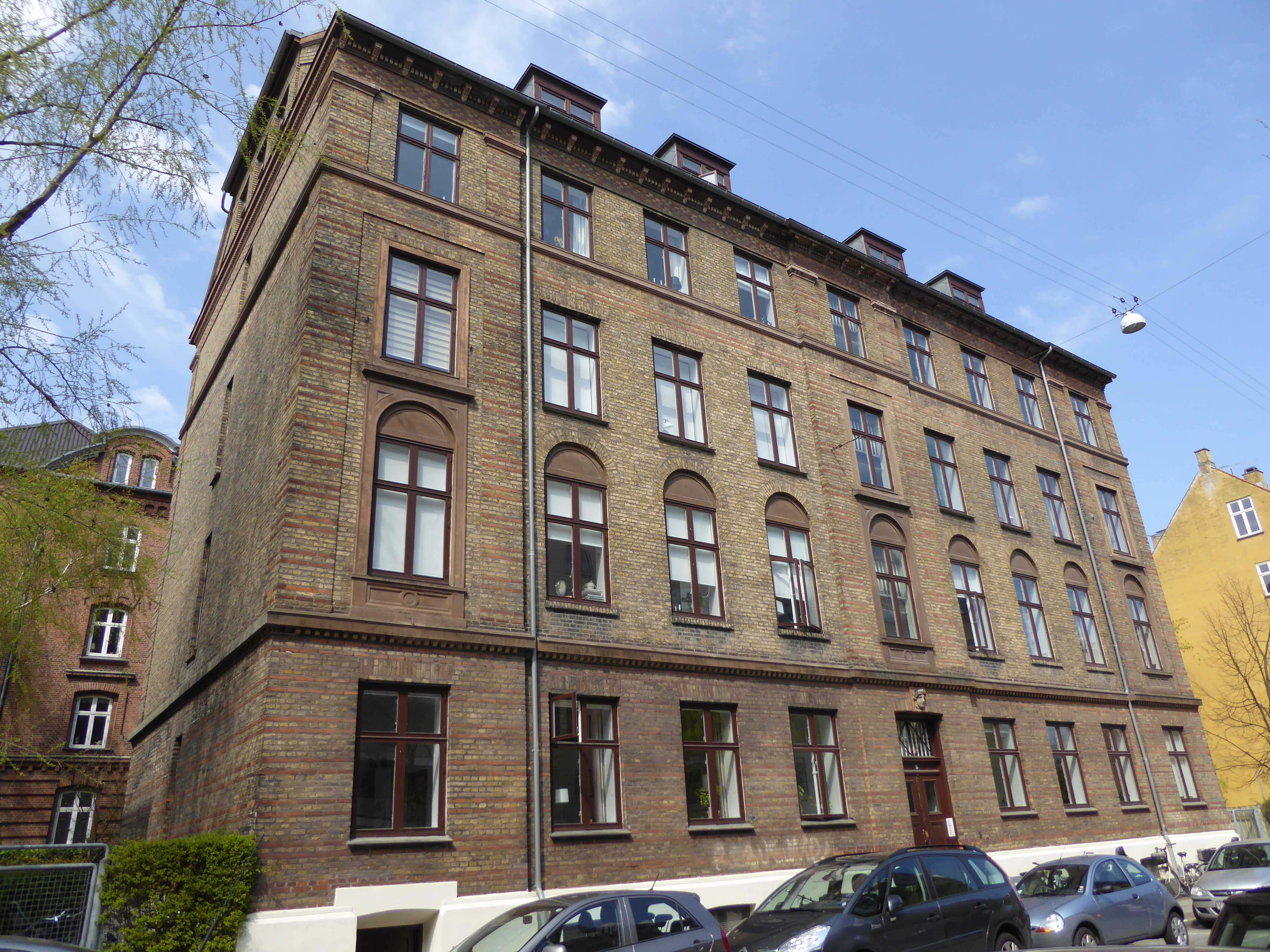 Listed building at Schønbergsgade 15 in Frederiksberg, Copenhagen, Denmark